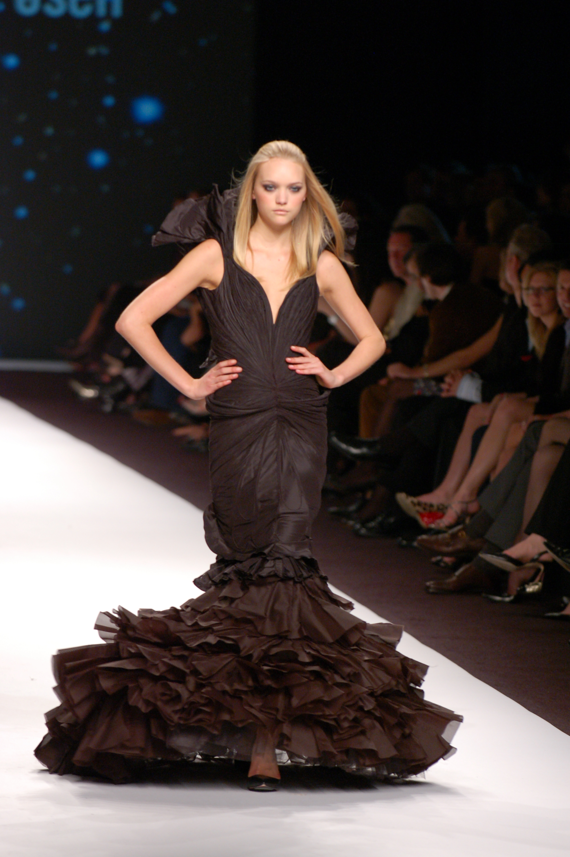 Gemma Ward at FashionWeekLive in San Francisco, March 15, 2007 Photo by Jesse Gross